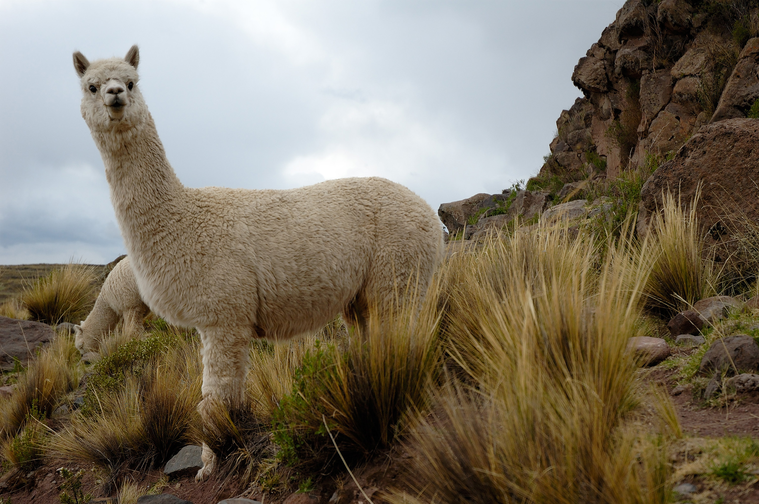 A pair of young alpacas at the pre-Inca burial site of Sillustani, Peru.